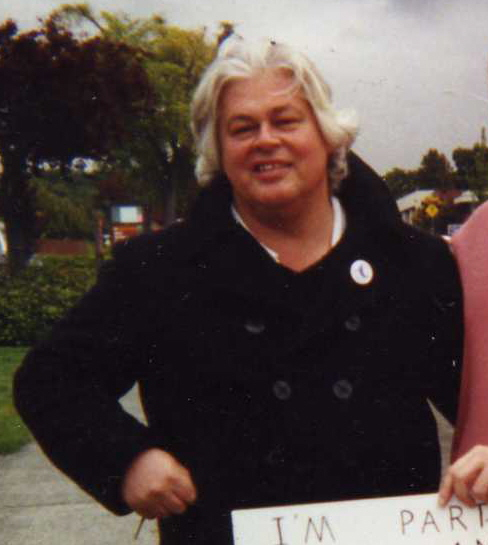 Paul Watson at anti-whaling rally in Port Angeles, 1999. The occasion was to protest the Makah whaling. (Note: This image is a crop of the larger image. If another editor feels another crop ratio is preferable, one may be made.)